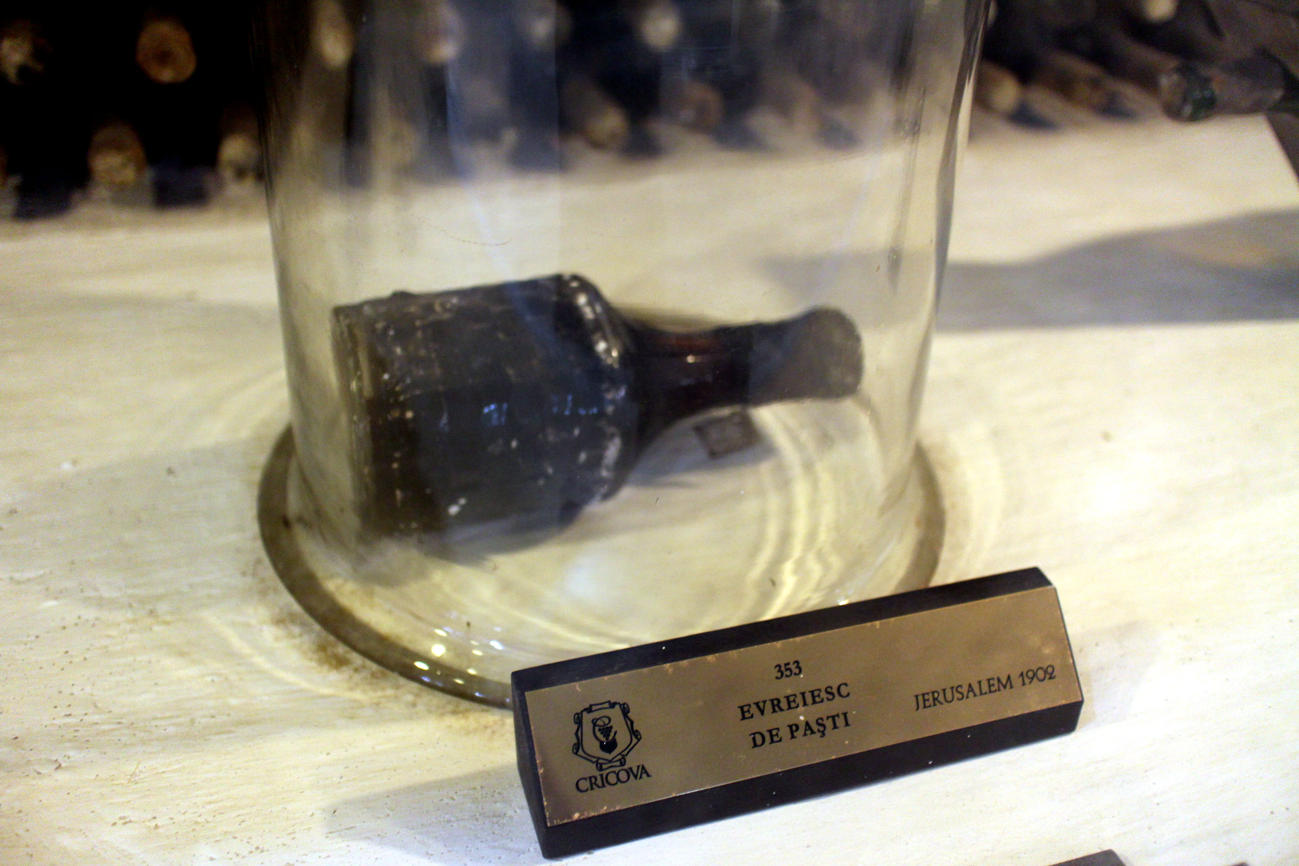 A unique bottle of wine (Easter Jerusalem, Ian Beher) harvest in 1902 year as exhibited in Cricova Cellars.